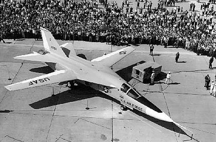 General Dynamics F-111A (SN 63-9768, third pre-production aircraft) with unswept wings at the aircraft rollout on Oct. 15, 1964